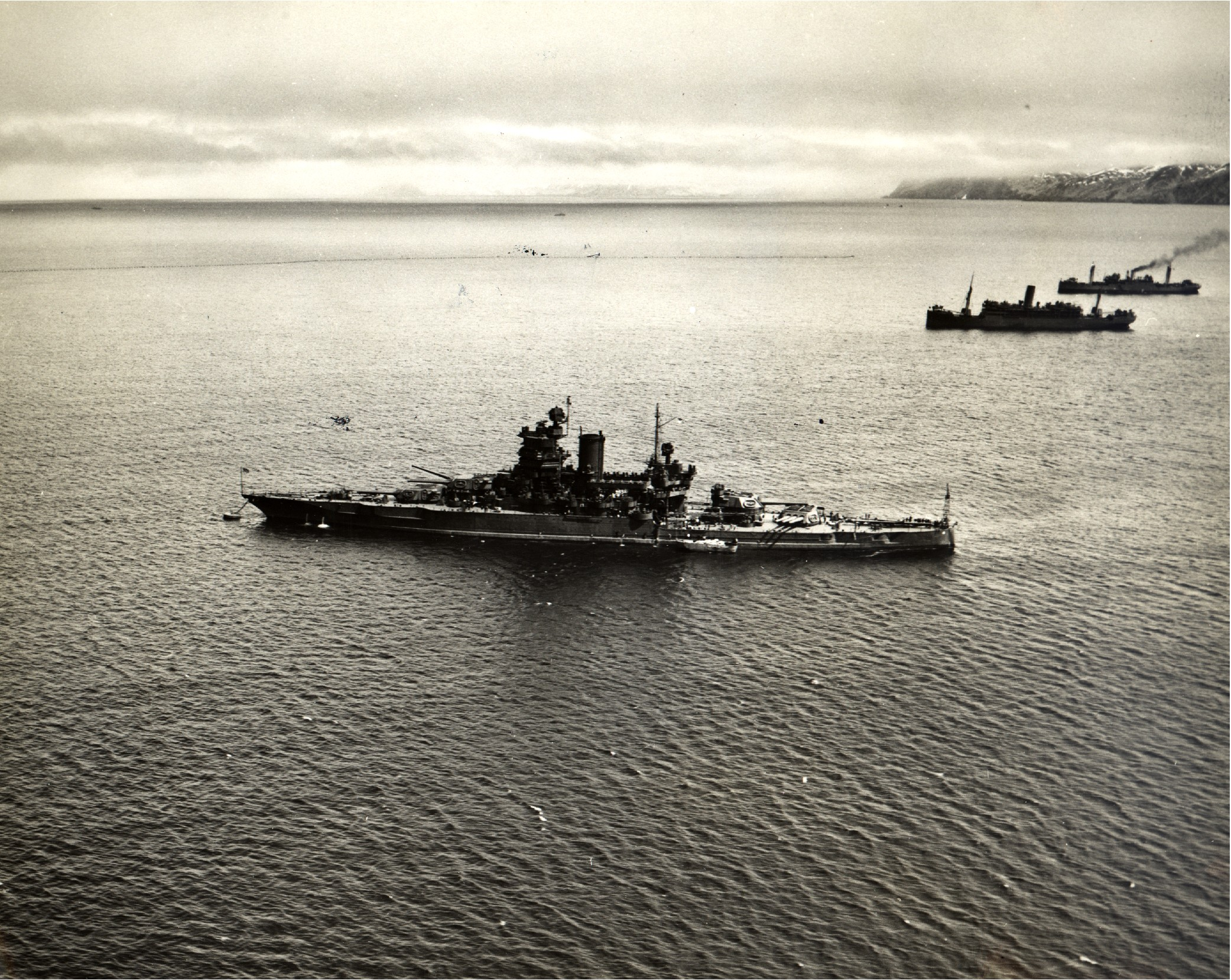 The U.S. Navy battleship USS Mississippi (BB-41) at anchor in Kuluk Bay, Adak, Alaska, 18 May 1943.